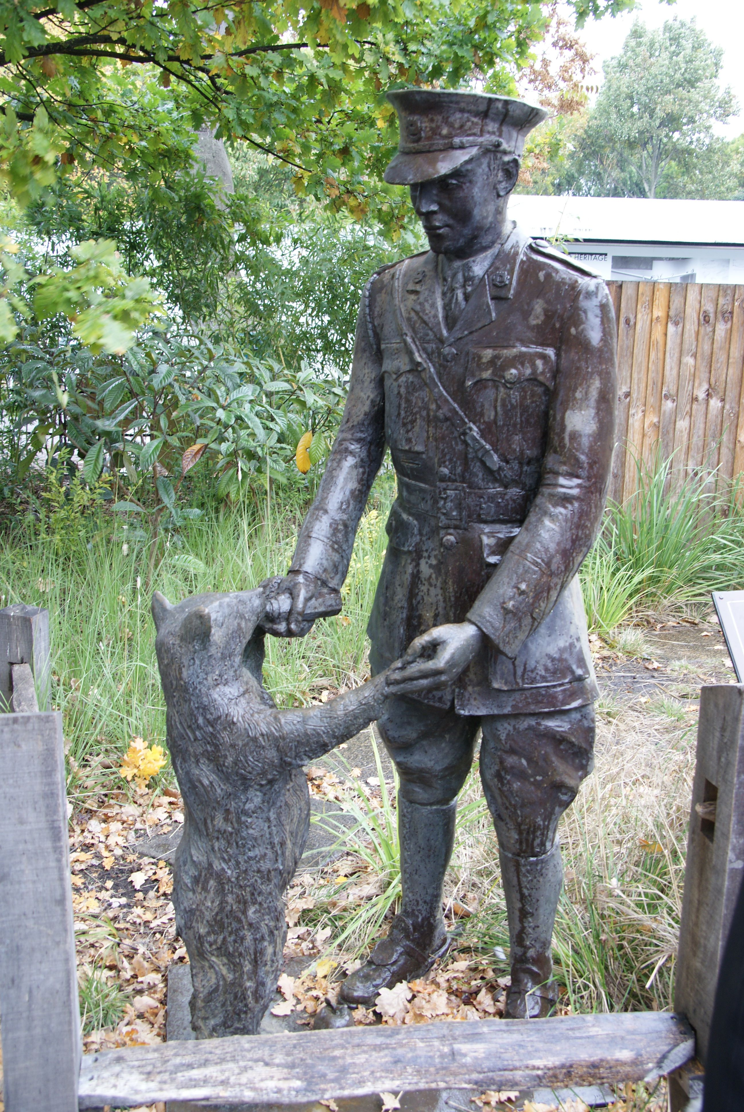 Statue of Harry Colebourn and Winnie the Bear